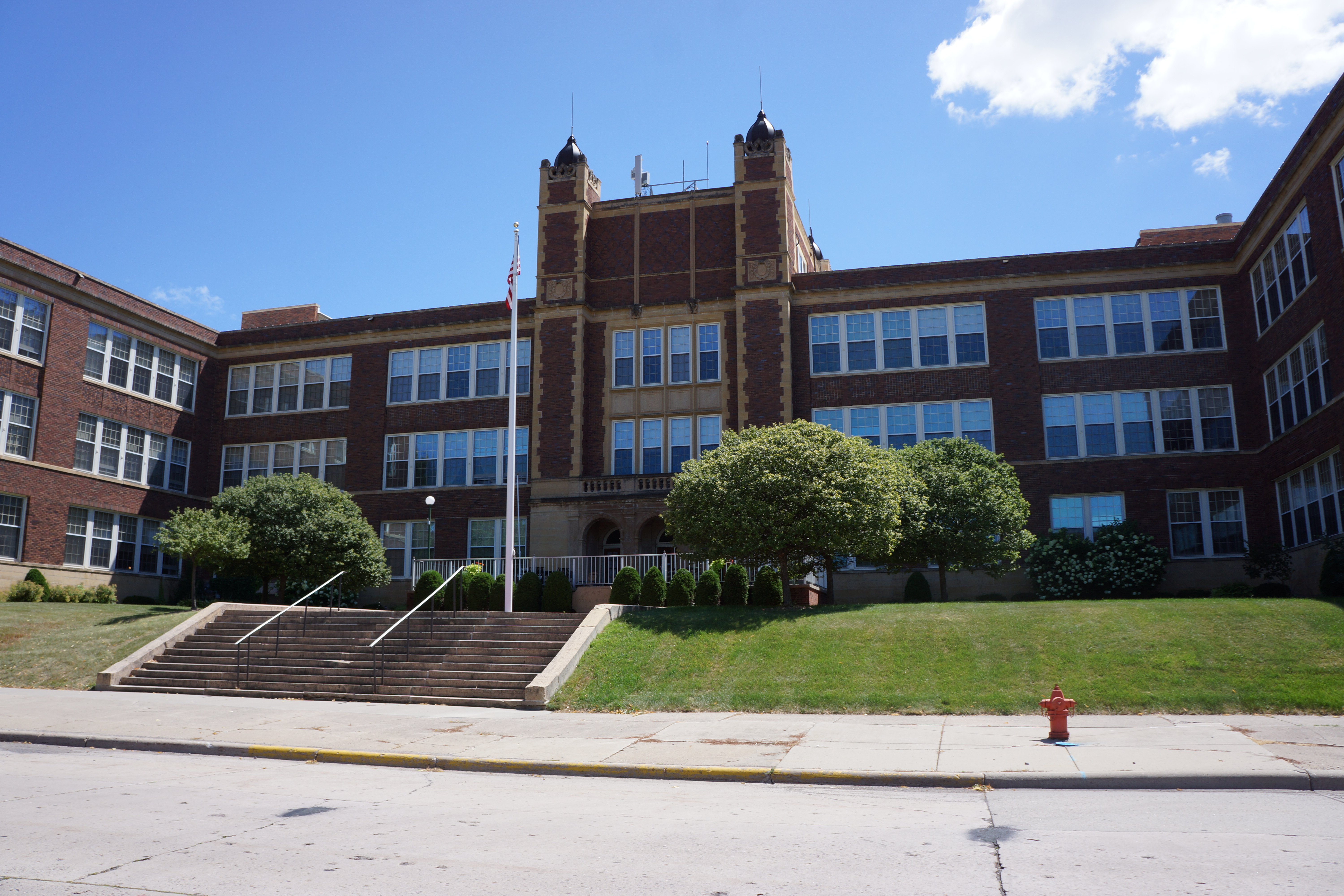 This is a picture of the historical Old Main Hall and the Annex of the Minnesota State University, Mankato Wilson Campus that is located in Downtown Mankato. It is on the U.S. National Register of Historic Places.